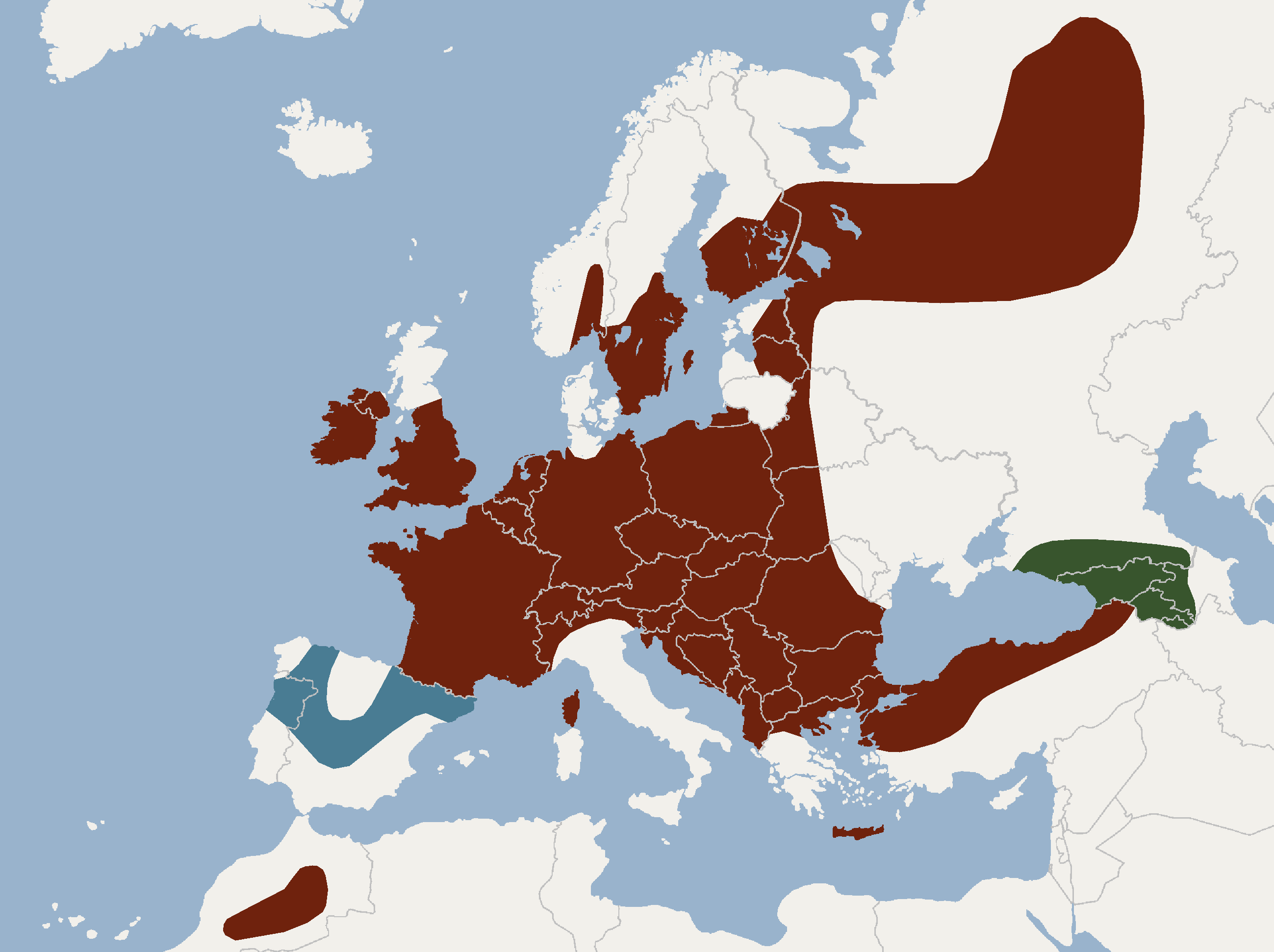 According to IUCN Redlist